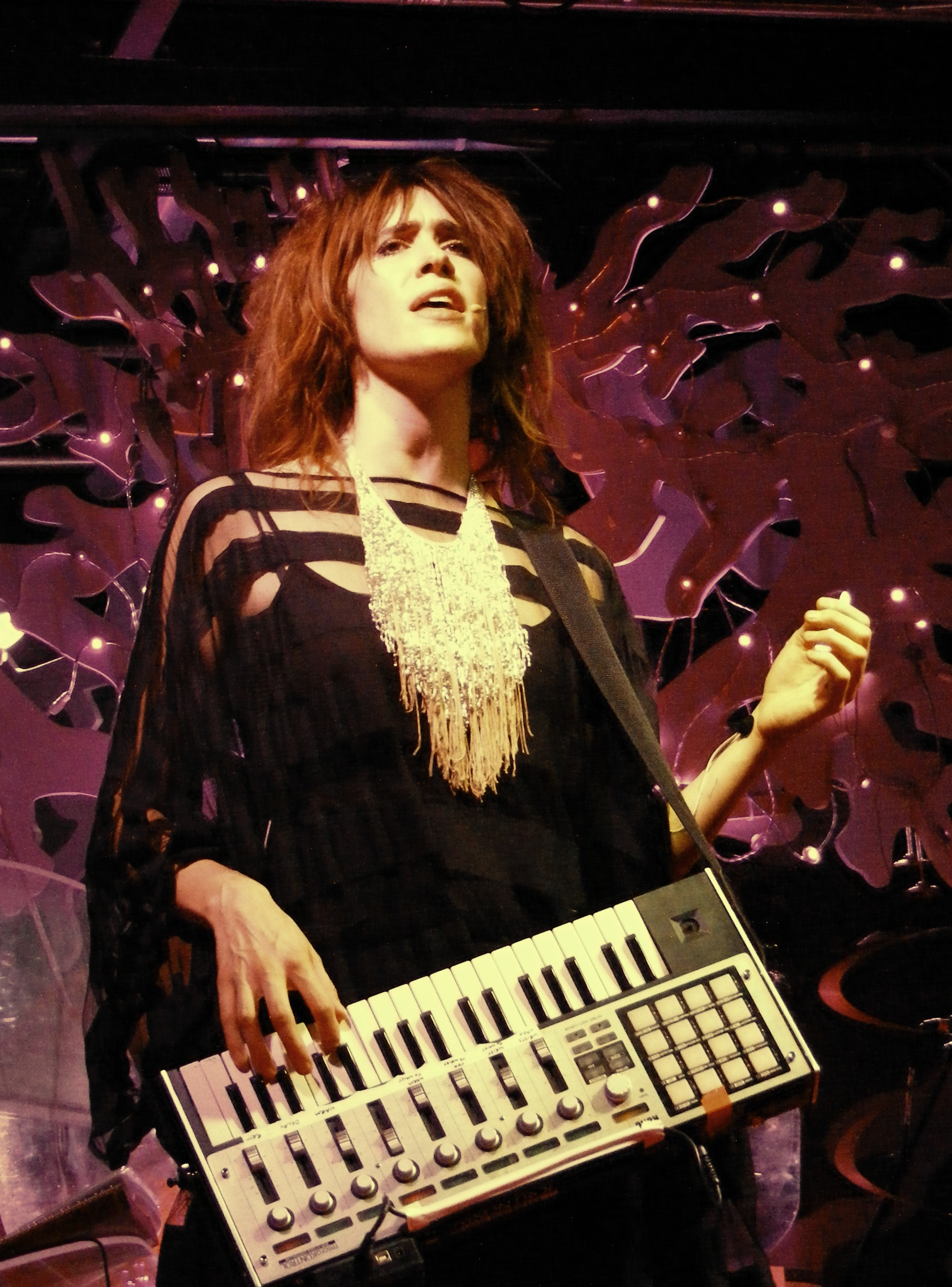 Imogen Heap at the O2 Academy, Liverpool, on Friday the 29th of October 2010